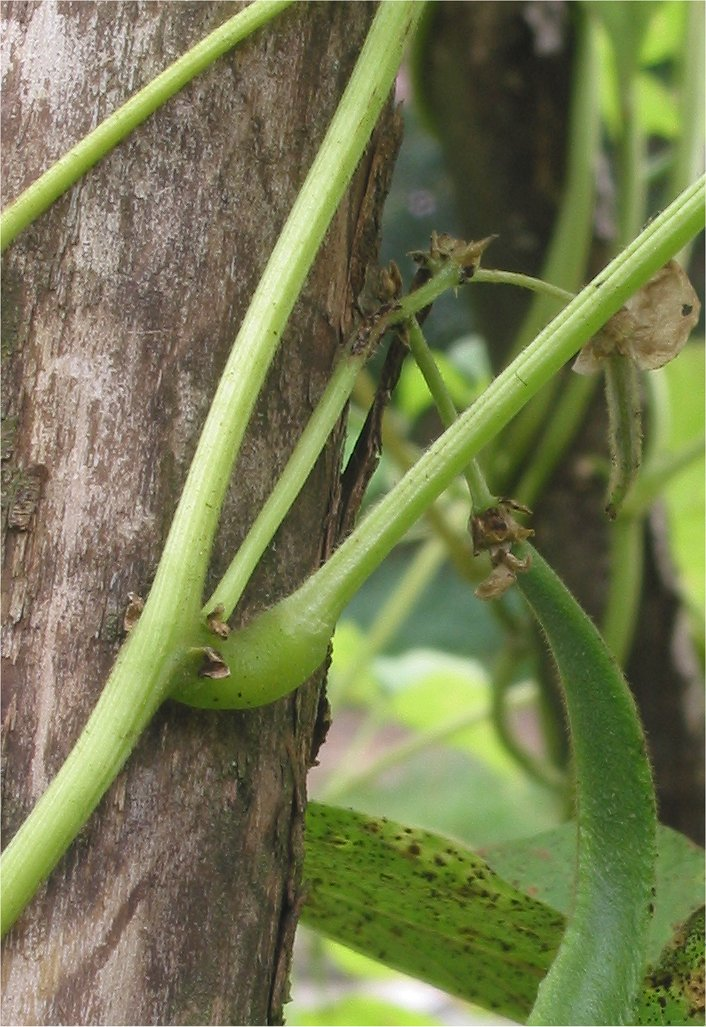 (Bladkussen bij pronkboon) Phaseolus coccineus leaf cushion